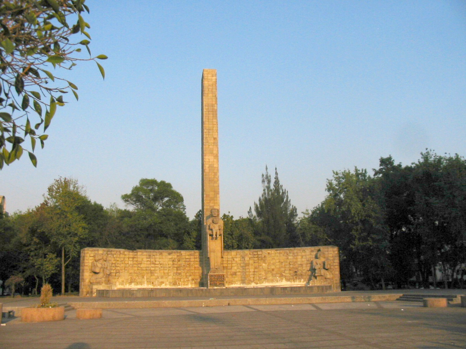 Photo of Monumento a la Madre in Mexico City near Reforma and Insurgentes. The inscription translates to "To her who loves us before she meets us."